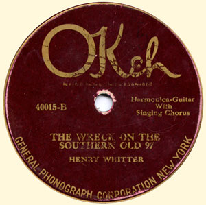 A record of Henry Whitter's The Wreck Of The Old Southern '97, later recorded by Vernon Dalhart